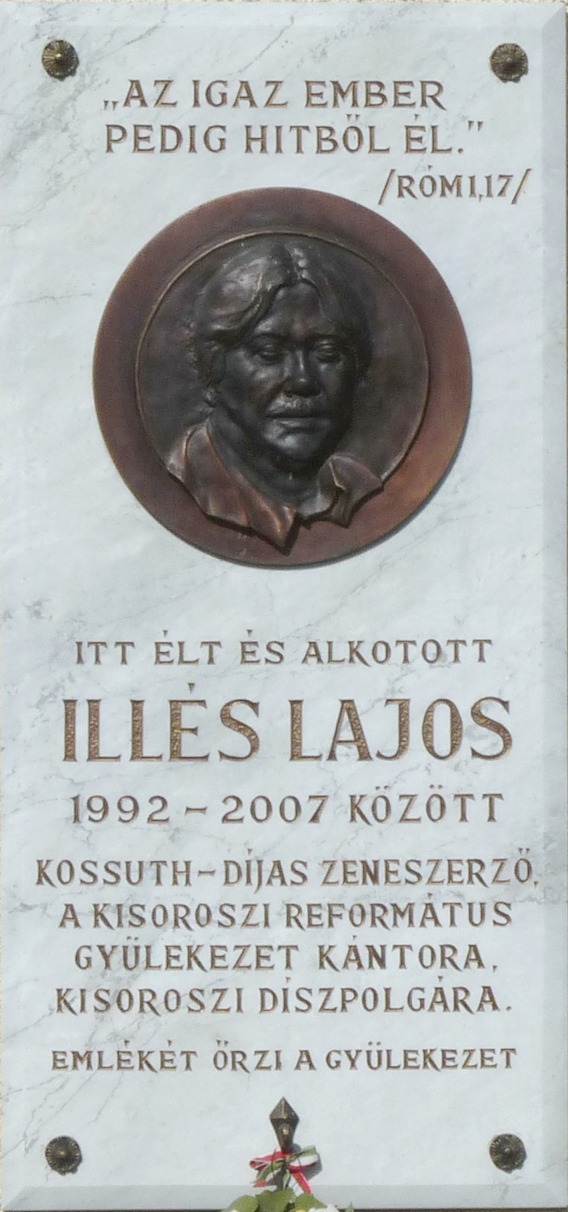 Commemorative plaque to Mr. Lajos Illés (1942–2007) Hungarian musician and composer. It is affixed on the wall of his former home where he lived and worked between 1992 and 2007. It was unveiled on January 16, 2008. Author of the bronz relief is Mrs. Zsuzsa Katona. (Kisoroszi, Hősök Square Nr 1)